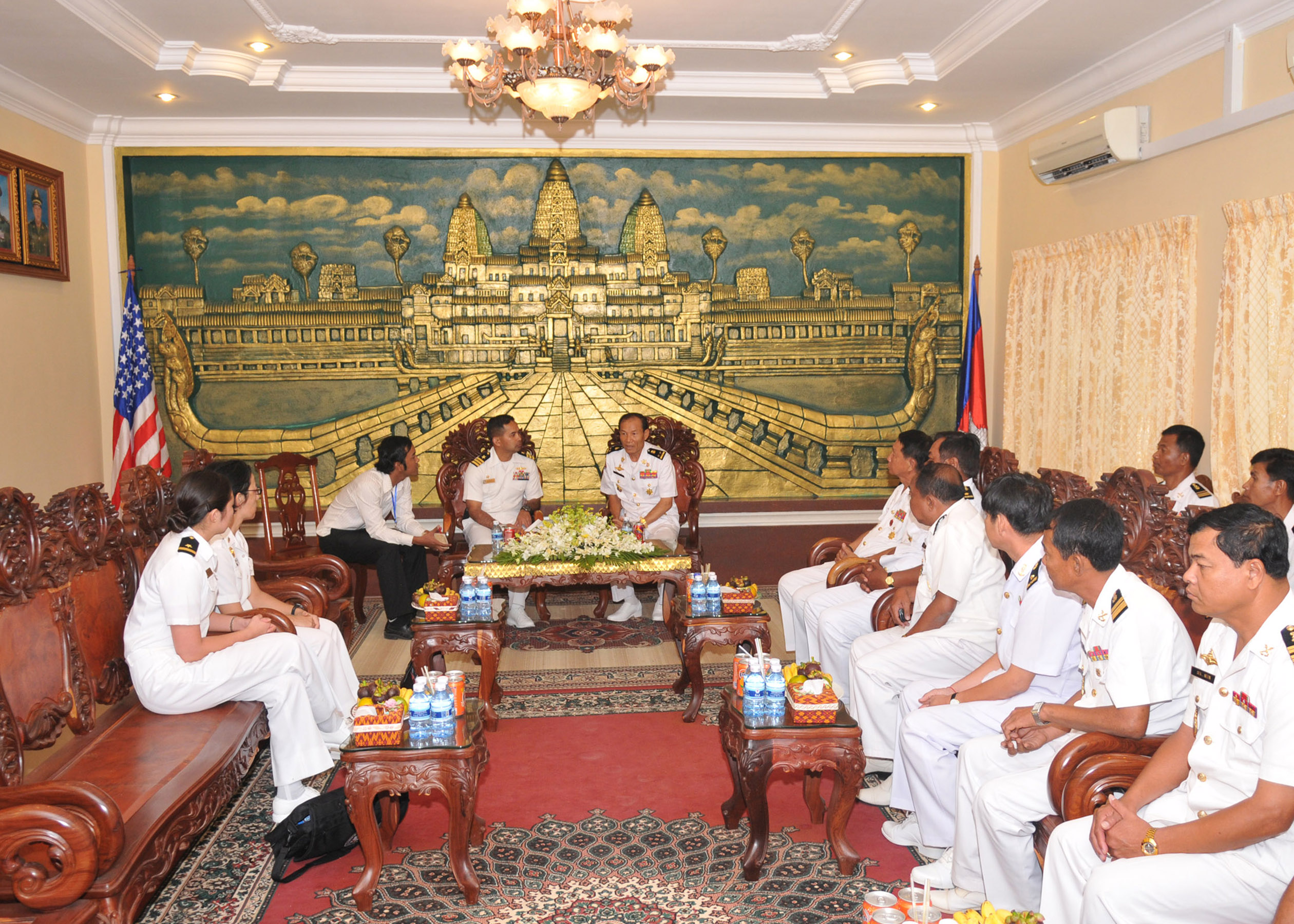 SIHANOUKVILLE, Cambodia (Dec. 3, 2010) Cmdr. Michael V. Misiewicz, commanding officer of the guided-missile destroyer USS Mustin (DDG 89), visits with Cambodian navy Rear Adm. Ouk Seiha, commander of Ream Naval Base, and members of the base staff in Sihanoukville, Cambodia. This is Misiewic's first visit to his native country since he immigrated to the U.S. in 1973. During the port visit, Mustin will conduct bilateral training with the Royal Cambodian Armed Forces. (U.S. Navy photo by Mass Communication Specialist 3rd Class Devon Dow/Released)